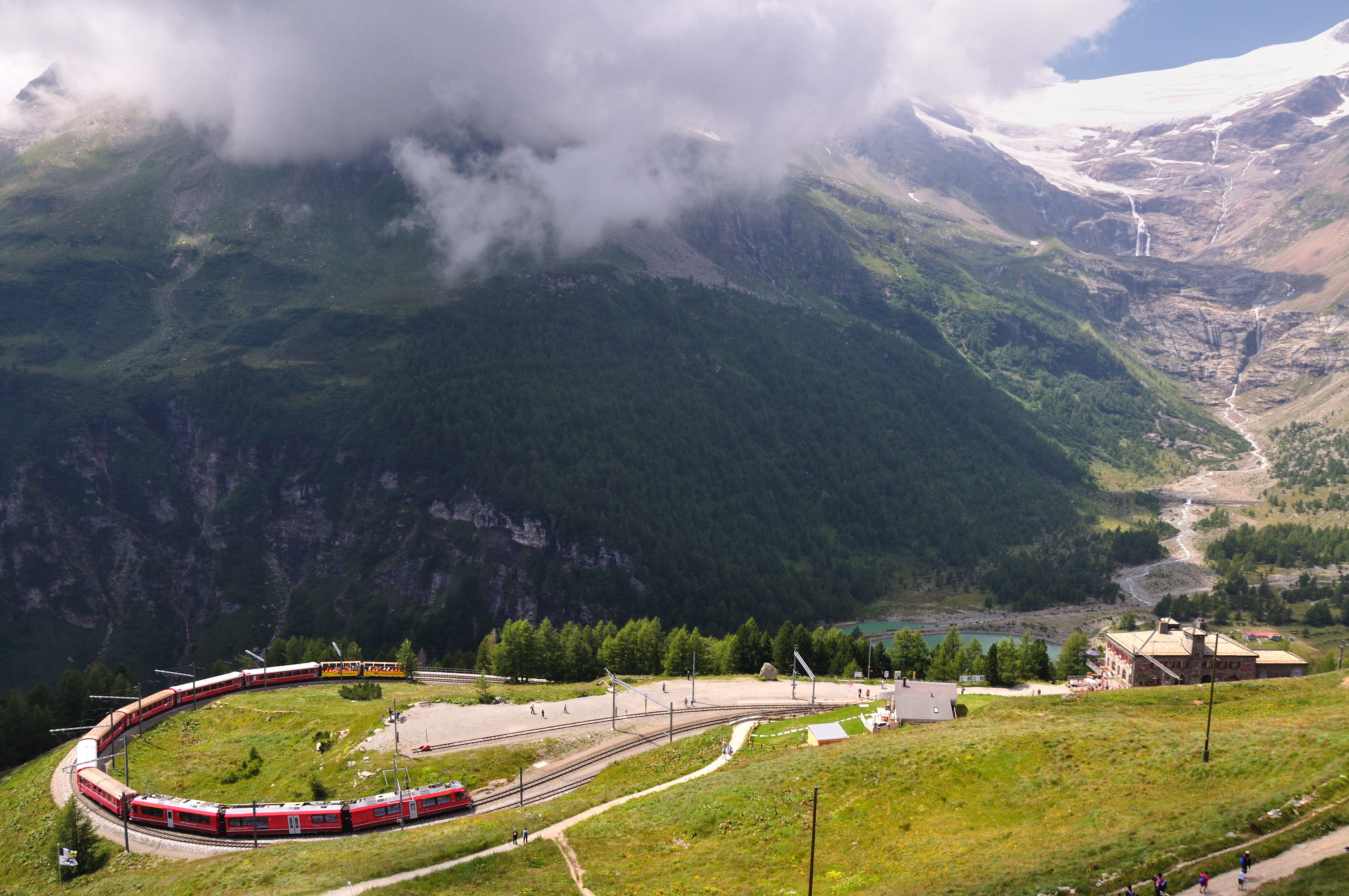 Switzerland, Graubünden, a North bound regional train with a new ABe 8/12 is approaching Alp Grüm station